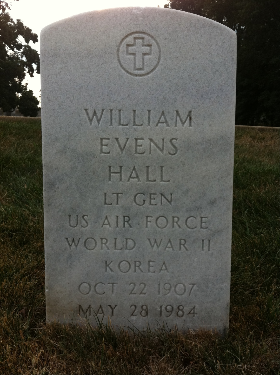 Grave of William Evens Hall at Arlington National Cemetery, 2/4705-B